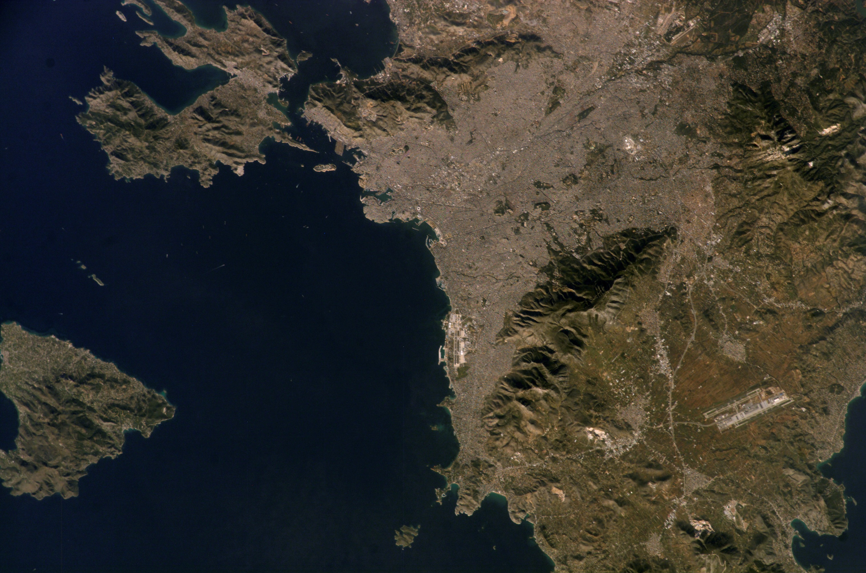 Astronaut Photo of Athens, Greece taken from the International Space Station (ISS) during Expedition 14 on November 9, 2006.